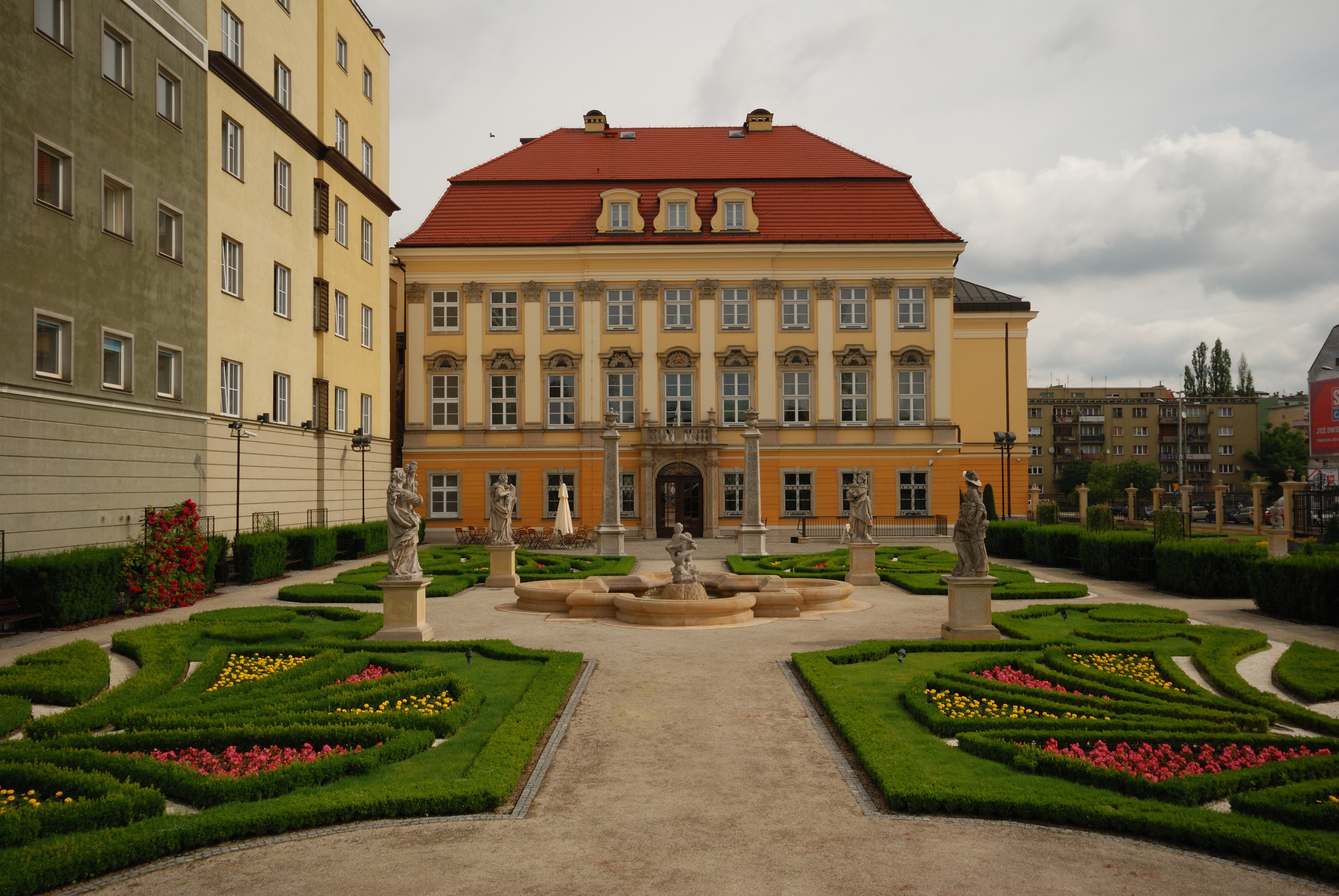 Wroclaw Palace, view from the baroque garden.